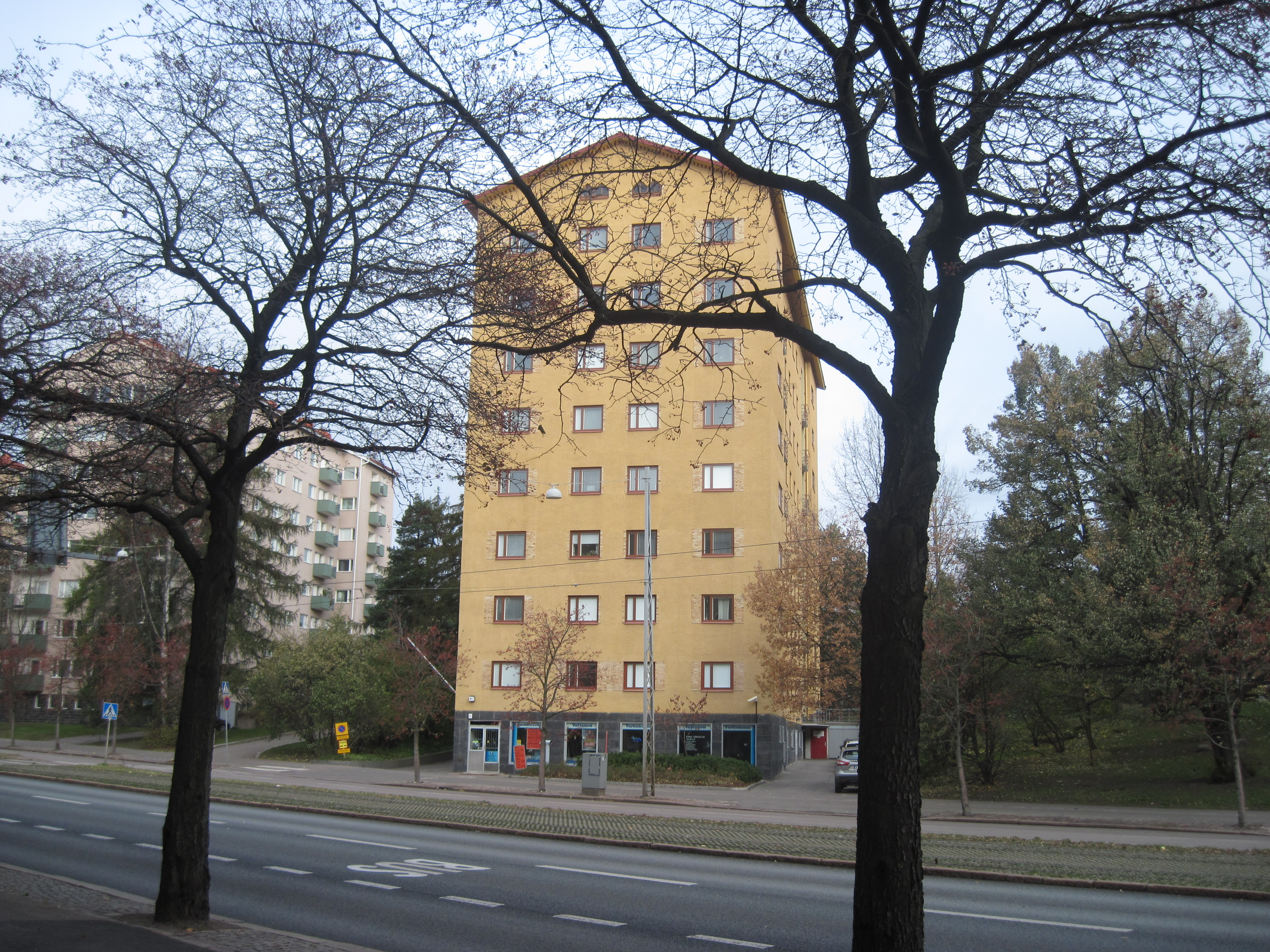 Mannerheimintie 81, Helsinki, the oldest Arava house in Finland